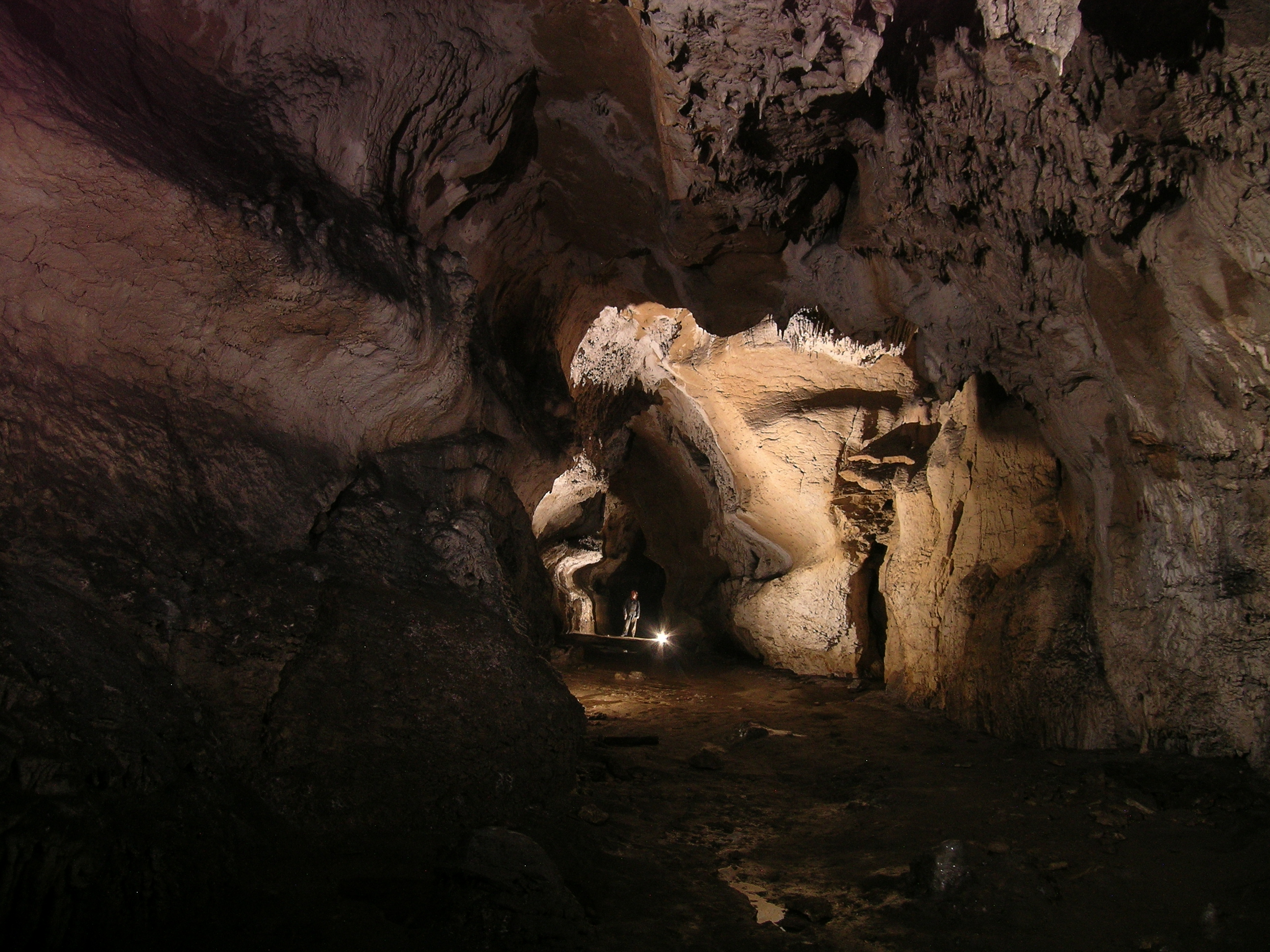 Atxurra cave. Panoramic of the lower gallery.